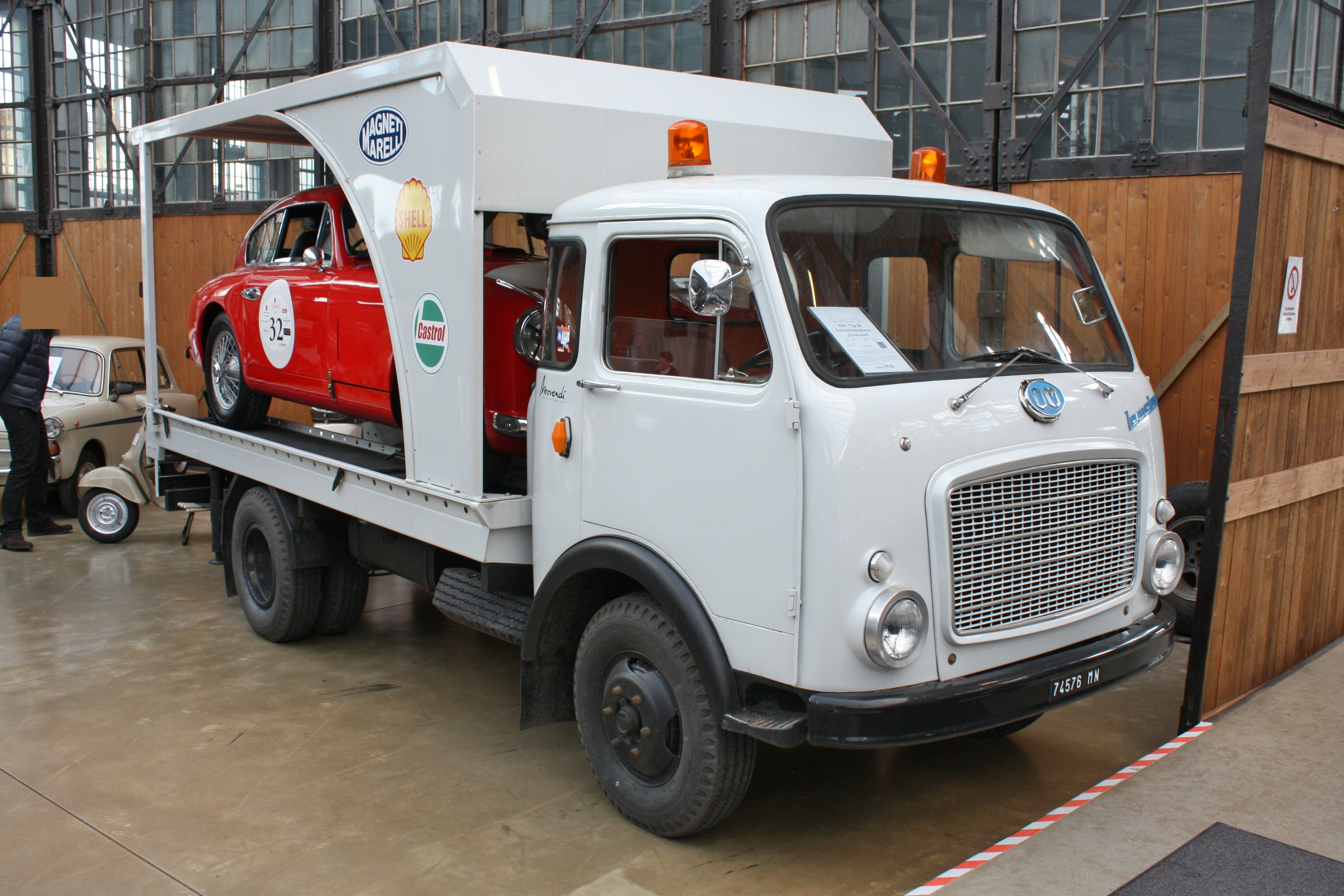 OM Type 30 „Leoncino“, 1964, seen at CLASSIC REMISE, Duesseldorf, Germany